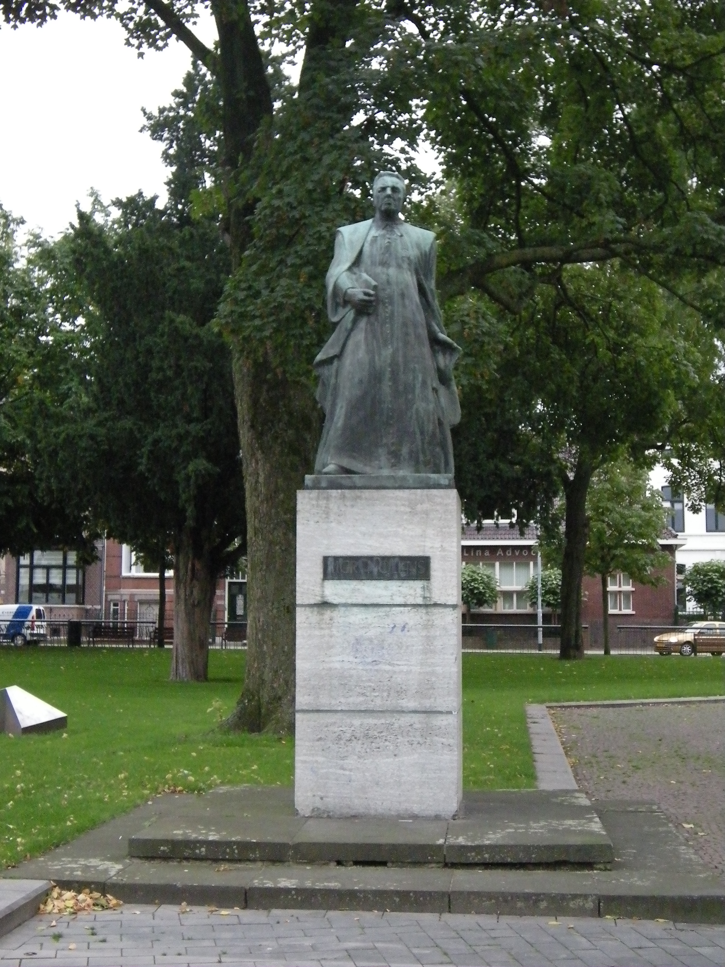 statue of W.H. Nolens standbeeld W.H. Nolens